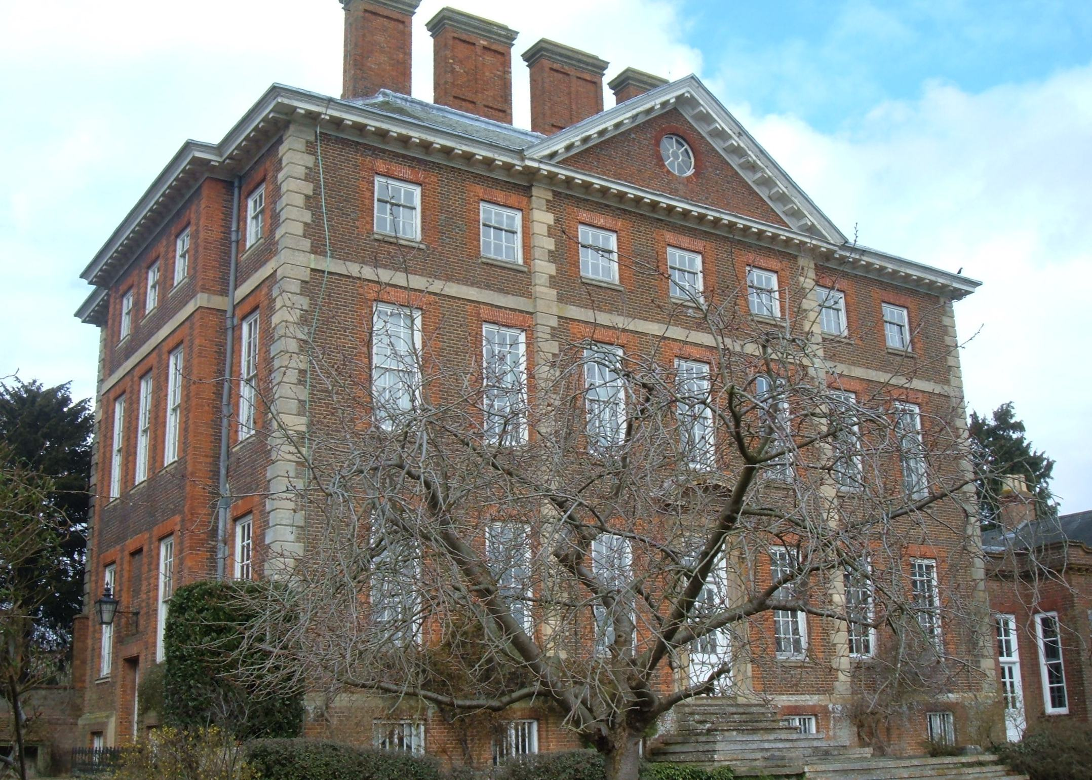 Winslow Hall Taken from just inside the wall, hence the missing chimney stack.